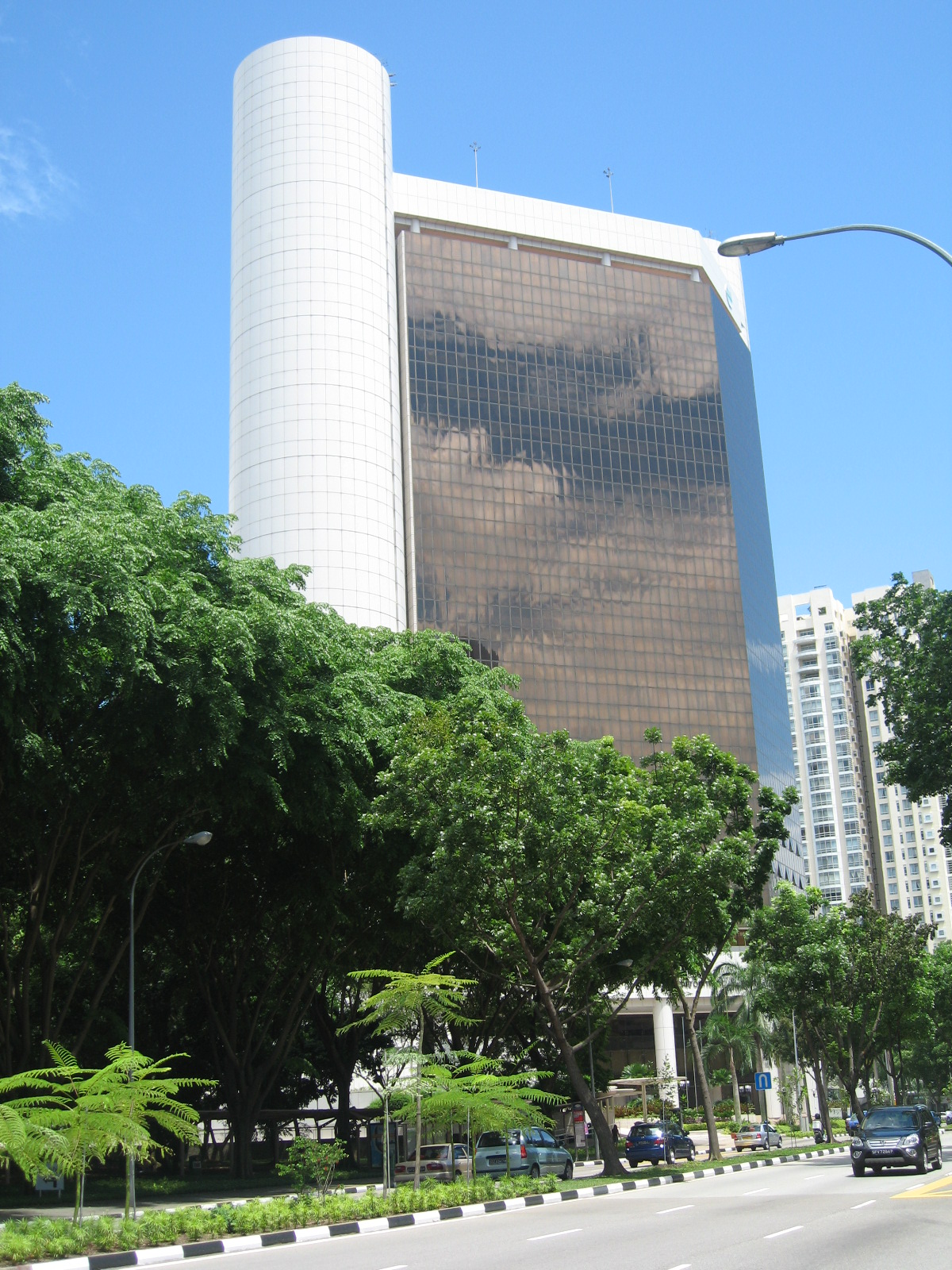 Environment Building.